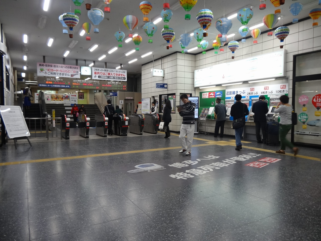 The Ticket Gate at JR Kyushu Saga Station